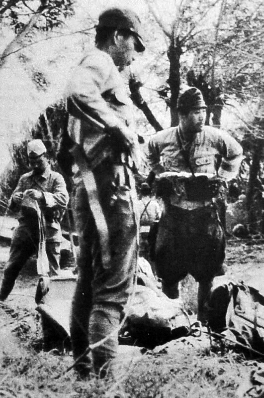 Major Shirai Tsuneharu, commander of IJA 3rd Raiding Regiment and his adjutant Captain Kohno at Clark Field, preparing for Operation Te, December 1944.